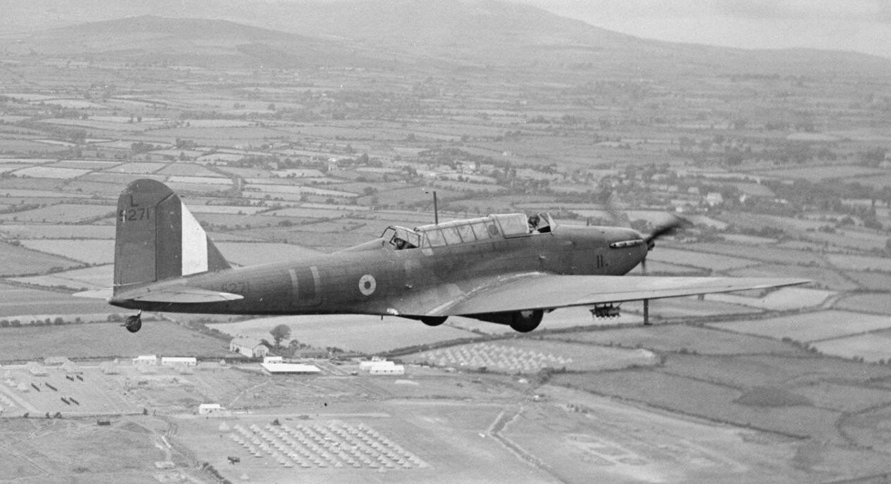 The Polish Air Force in the United Kingdom, 1939-1945. Fairey Battle, L5271 'U', of No. 18 Operational Training Unit, circles the airfield at Penrhos, Caernarvonshire, prior to landing. Polish personnel and aircraft of 18 OTU were detached to No. 9 Bombing and Gunnery School at Penrhos for armament and firing practice in the summer of 1940.